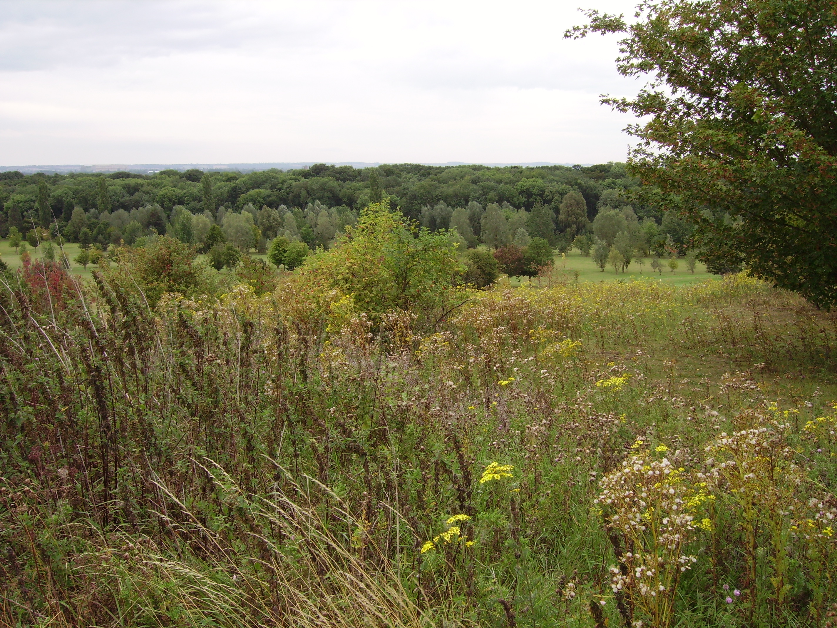 View from Mowsbury Hill down to Putnoe Wood.